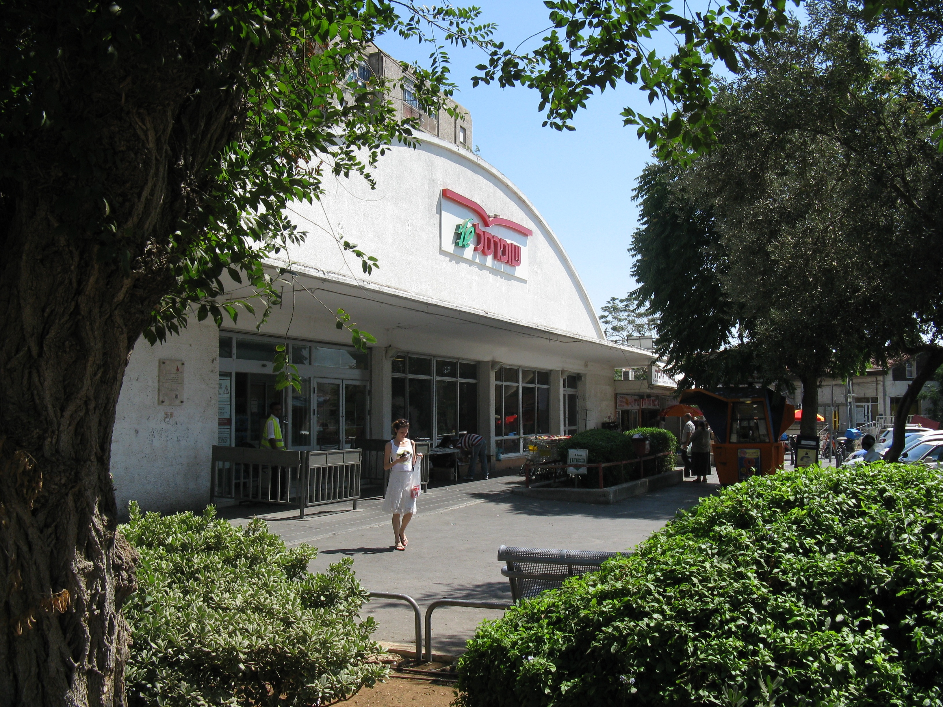 The entrance to the Kiryat HaYovel "SuperSol" supermarket, Jerusalem, Israel